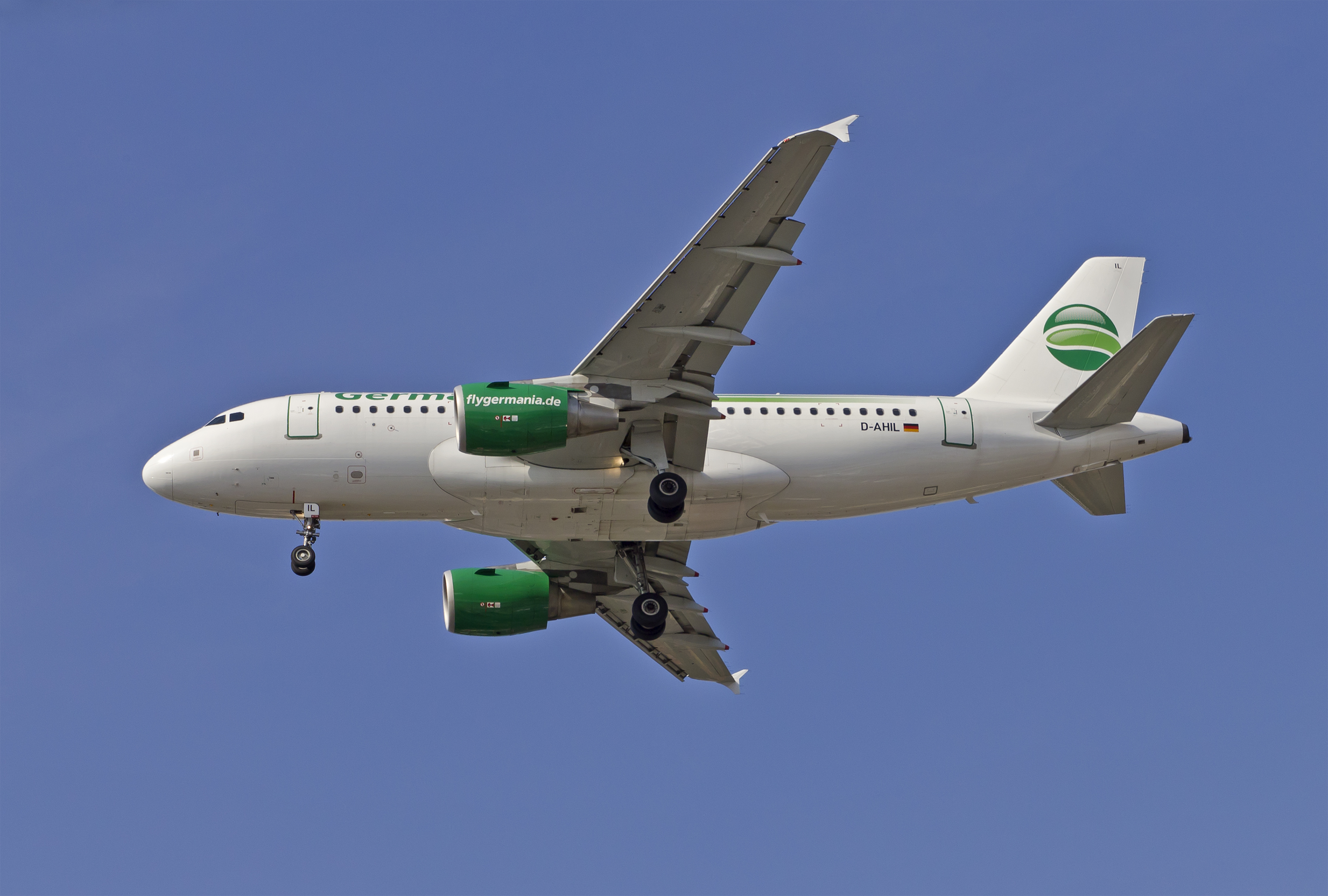 Germania passenger aircraft D-AHIL approaching Berlin-Tegel.